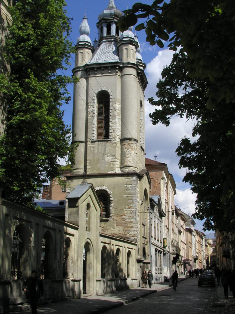 Tower of Armenian Cathedral in Lviv